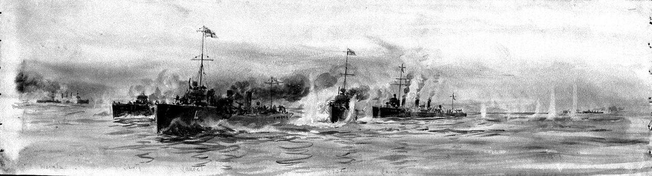 L-class destroyers under fire from the 'Mainz' at the Battle of the Heligoland Bight, 28 August 1914 Inscribed along the bottom by the artist to identify the ships, from far left to right: 'Maintz' [sic] (German cruiser), 'Liberty', 'Lysander', 'Laurel' and 'Laertes'. Commodore Reginald Tyrwhitt, commander of the Harwich Force, in the light cruiser 'Arethusa' with 16 destroyers of the 3rd Destroyer Flotilla, and Captain Blunt in the scout cruiser 'Fearless' with 15 destroyers of the 1st Destroyer Flotilla, steamed into the Heligoland Bight to attack German patrol lines shortly before 07.00 on 28 August 1914. They were supported by Commodore Goodenough with the six cruisers of the 1st Light Cruiser Squadron, who was in turn covered by the five battlecruisers of Vice-Admiral Beatty. In the ensuing confused action three German cruisers and one torpedo boat were sunk and other cruisers damaged, with over 1000 German officers and men being lost. On the British side, the 'Arethusa' and the destroyers 'Laertes', 'Laurel' and 'Liberty' were damaged and casualties were 59 dead and 43 wounded. This drawing shows the four named L-class destroyers of the 3rd Destroyer Flotilla under fire from the 'Mainz' (1909) at about 11.45. 'Laurel' still has the letter L on her hull but this should have been painted out on the outbreak of war and maya be an error by Wyllie. See also PAF1231.